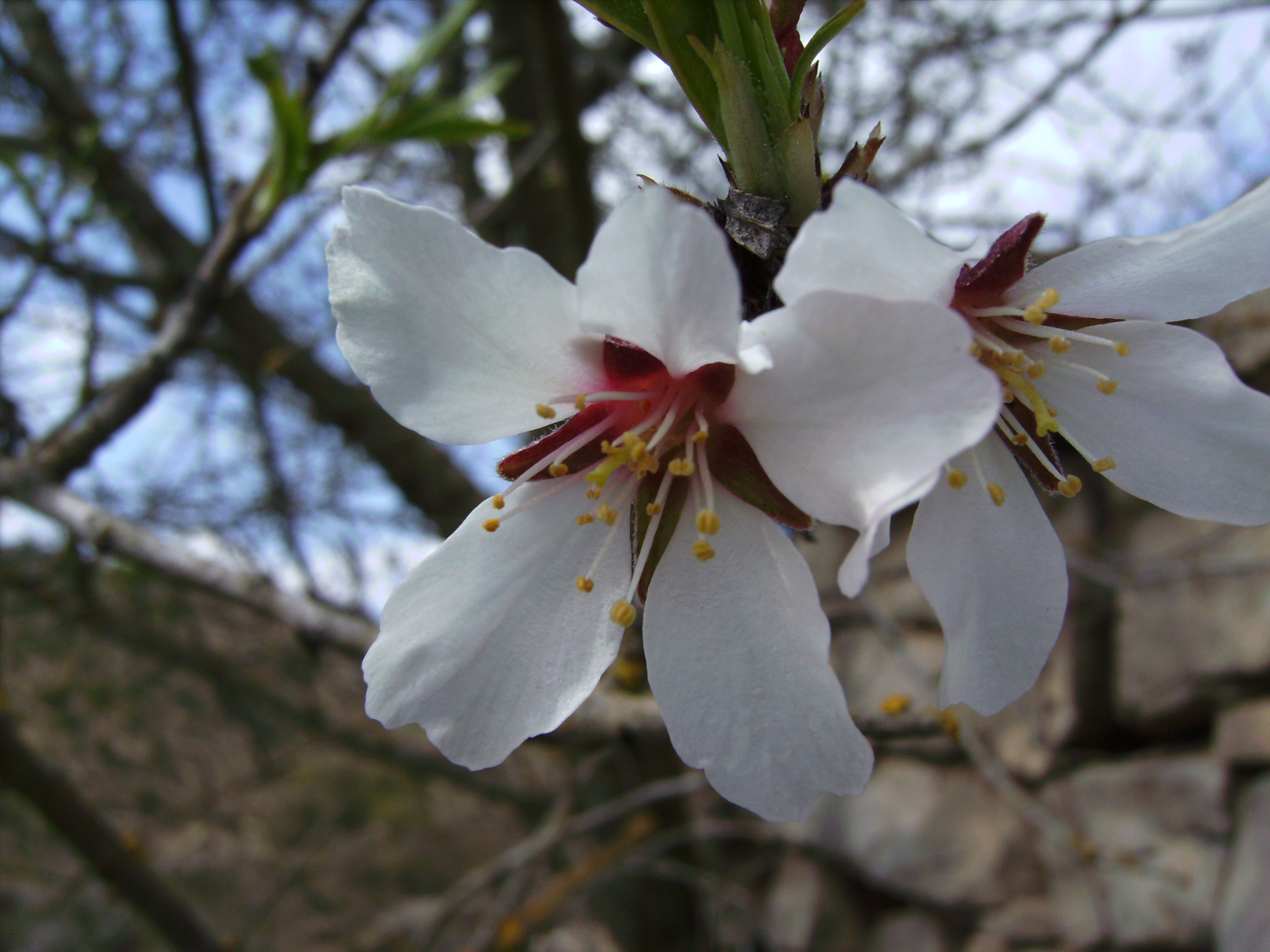 Almond flowers (800 m s.l.), Castelltallat Catalonia